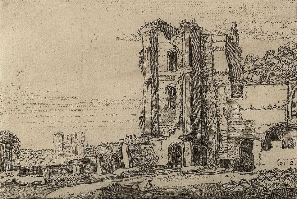 The Ruins of Brederode Castle near Haarlem, 1621, etching by Willem Buytewech, Currier Museum of Art